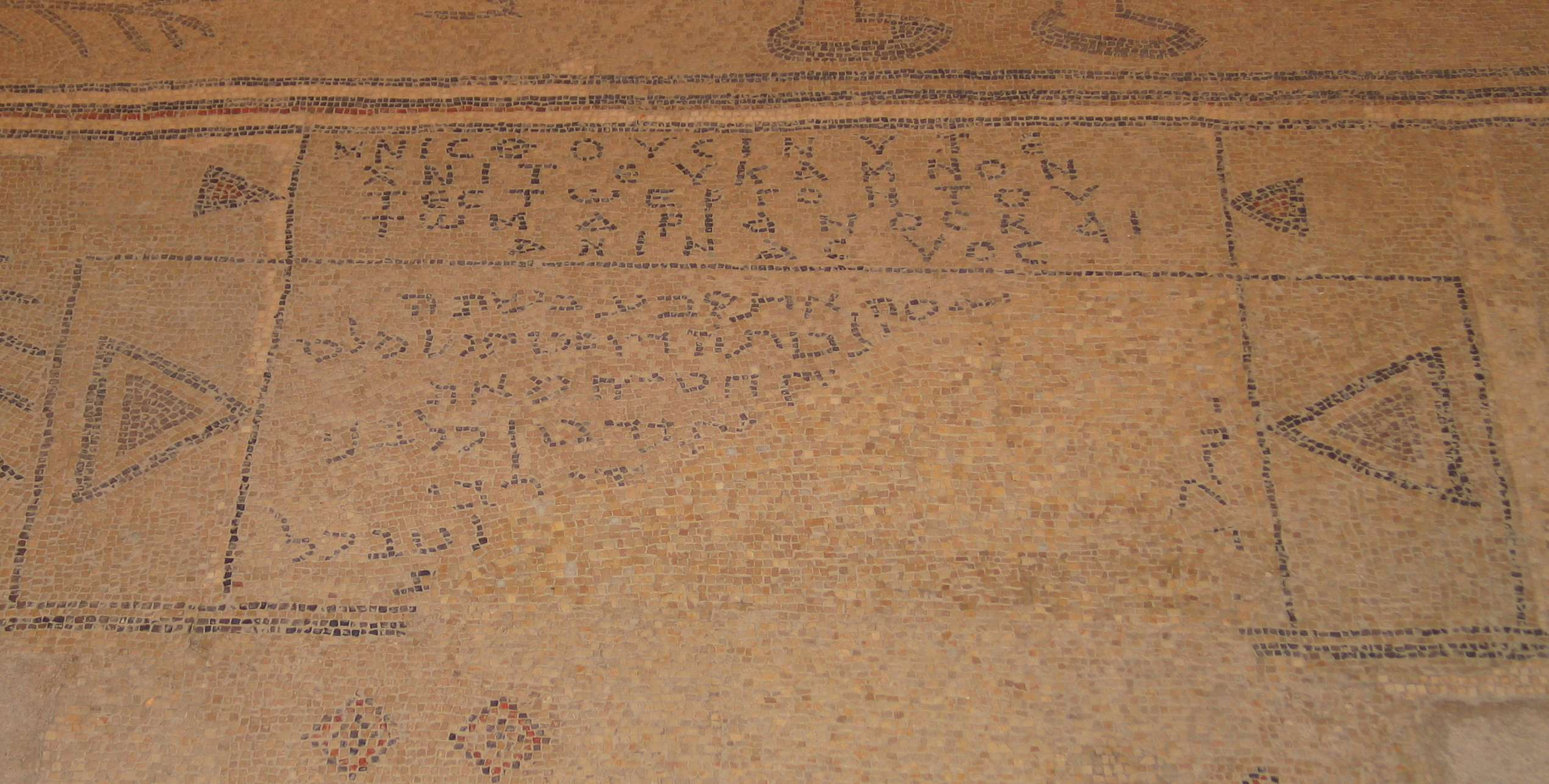 Beyt Alfa national park, Israel.